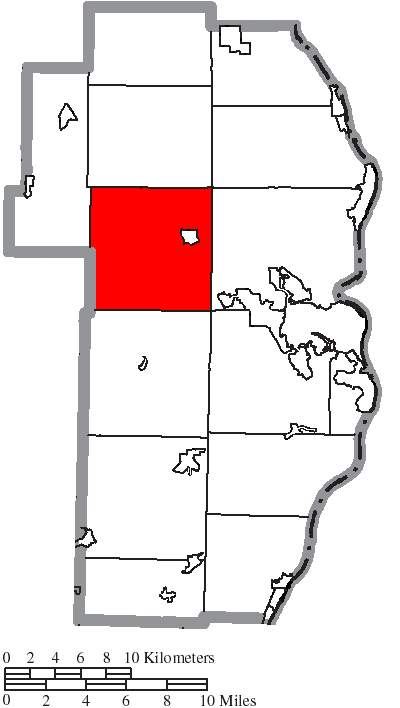 Map of the municipal and township boundaries of Jefferson County, Ohio, United States, as of the 2000 census, with the location of Salem Township highlighted. Township borders are shown only in unincorporated areas in order to differentiate incorporated and unincorporated areas more clearly.